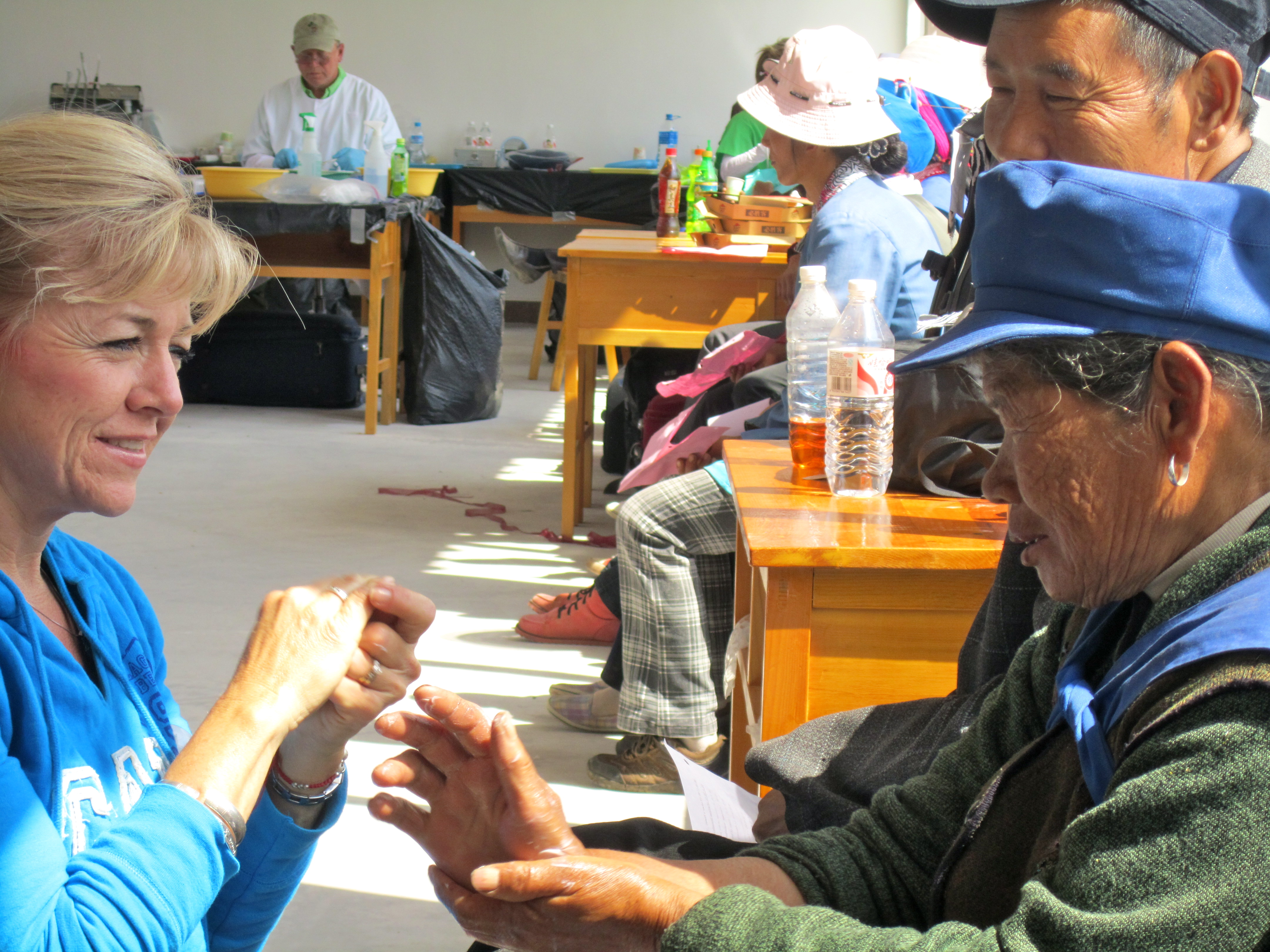 An American Woman Interacting Inter-culturally in Yunnan Province, China